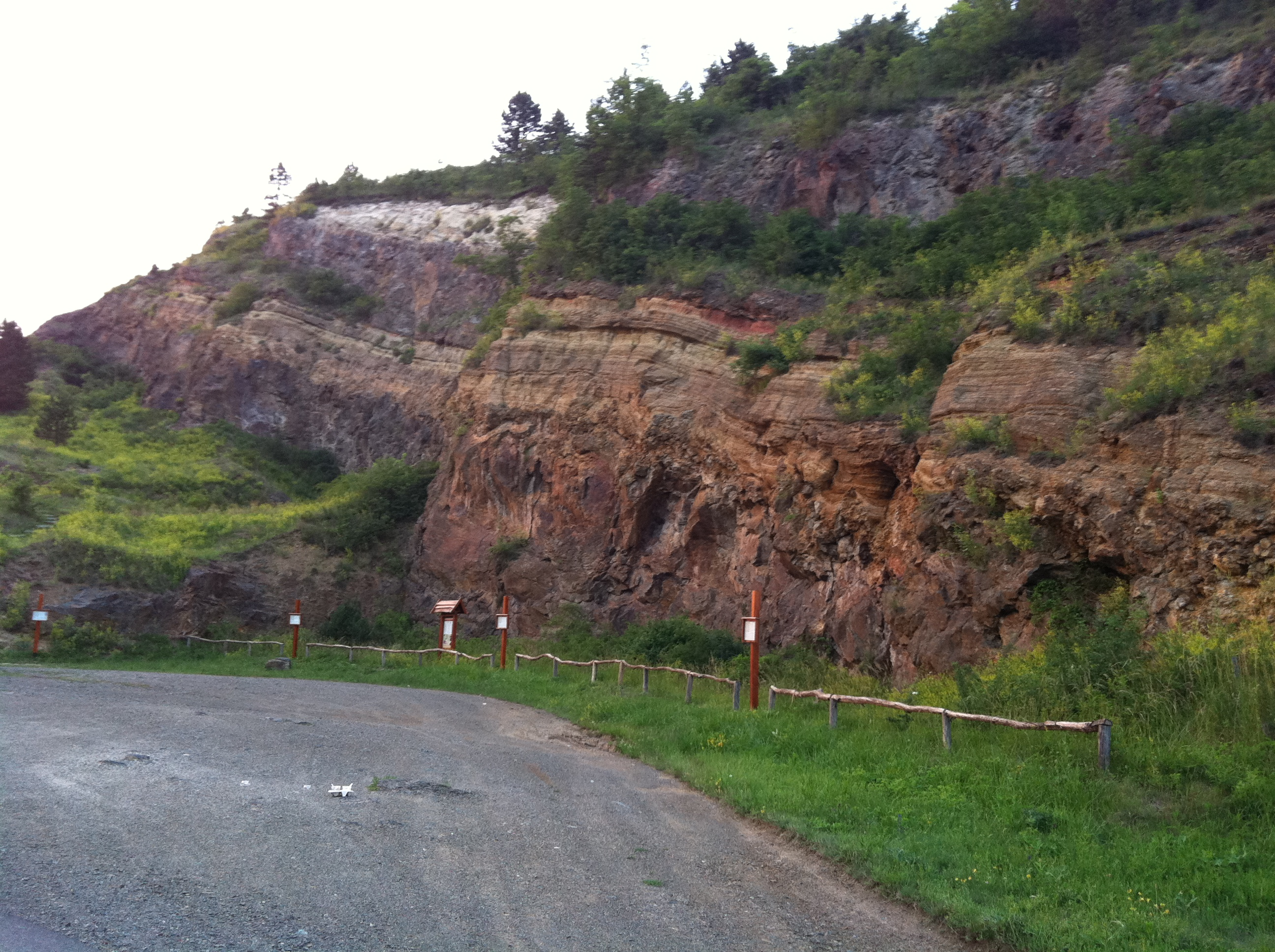 Sámsonháza, Hungary. Geopark on the site of the former quarry by the village border.